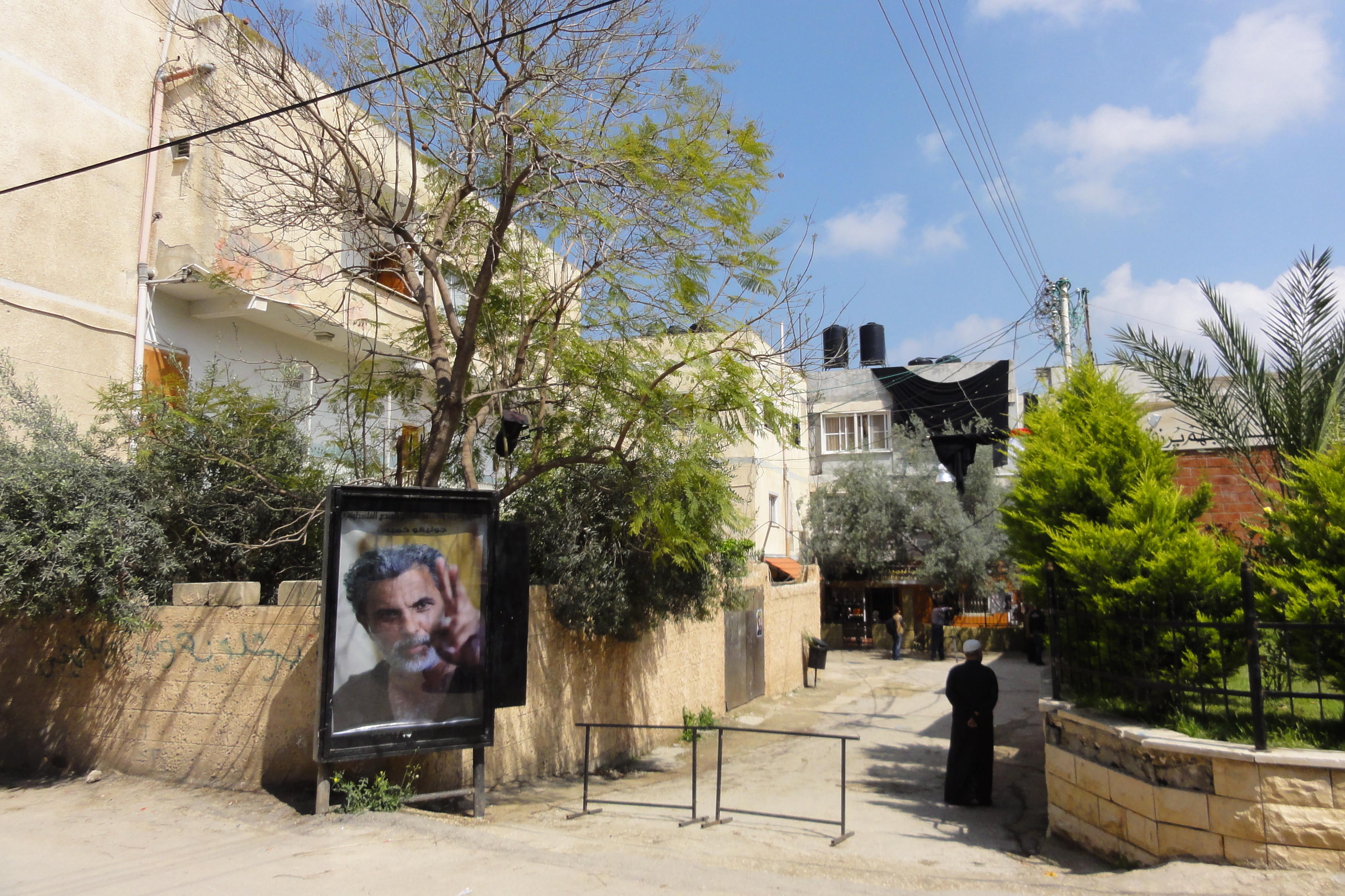 Freedom Theatre